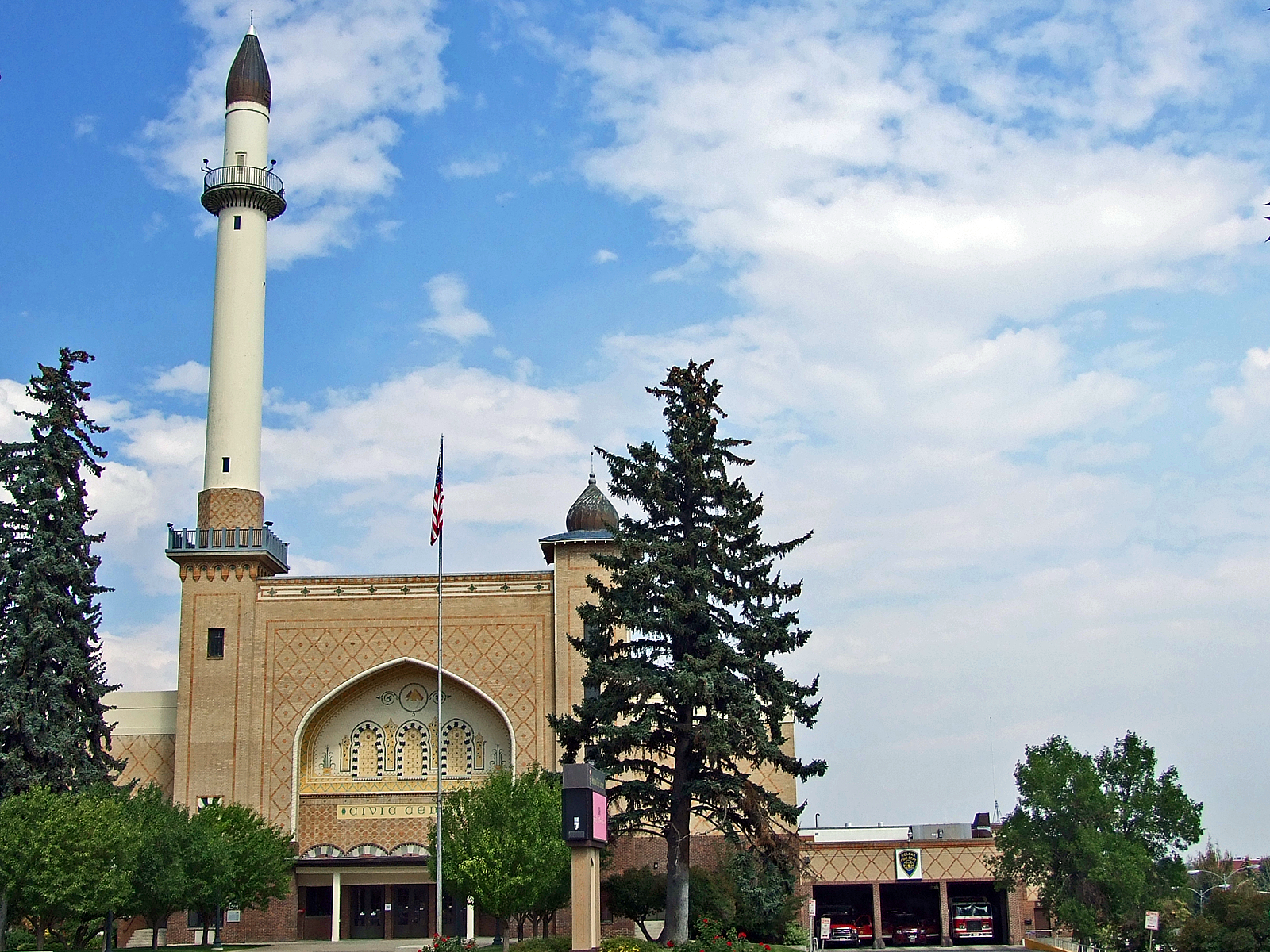 Algeria Shrine TempleThe Algeria Shrine Temple, completed in 1921, was built by the Ancient Arabic Order of the Nobles of the Mystic Shrine both for their use and for public events in Helena. George S. Carsley and Charles S. Haire, prominent architects of the era, designed this Moorish Revival building. Its minaret rises seventeen stories, and its façade six. Upon completion, the auditorium was ninth-largest in the nation, seating 2,608 people. The ballroom accommodates 500 dancing couples. The fire station, a 1939 addition, carries out the polychromatic design of the exterior brick. Severe damage by earthquakes in 1935 was beyond the financial means of the local Shrine to repair, yet the facility remained in demand for public use. The City of Helena purchased this structure in 1938, when it became the Civic Center, housing city government departments until 1979. The citizens of Helena, through local government and a Civic Center Advisory Board, have worked for the renovation and preservation of this building that serves many cultural needs of the Helena community.